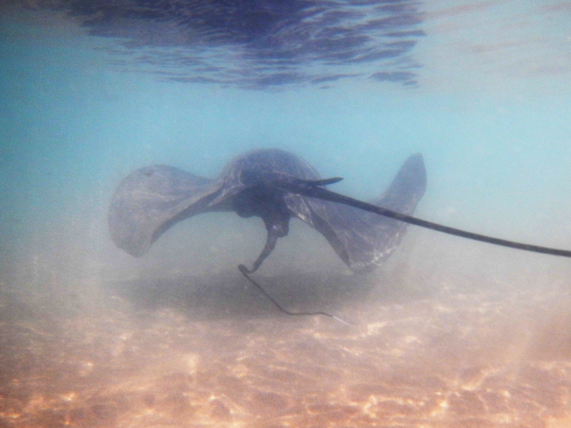 Common stingray (Dasyatis pastinaca) giving birth at Benicassim, Spain.